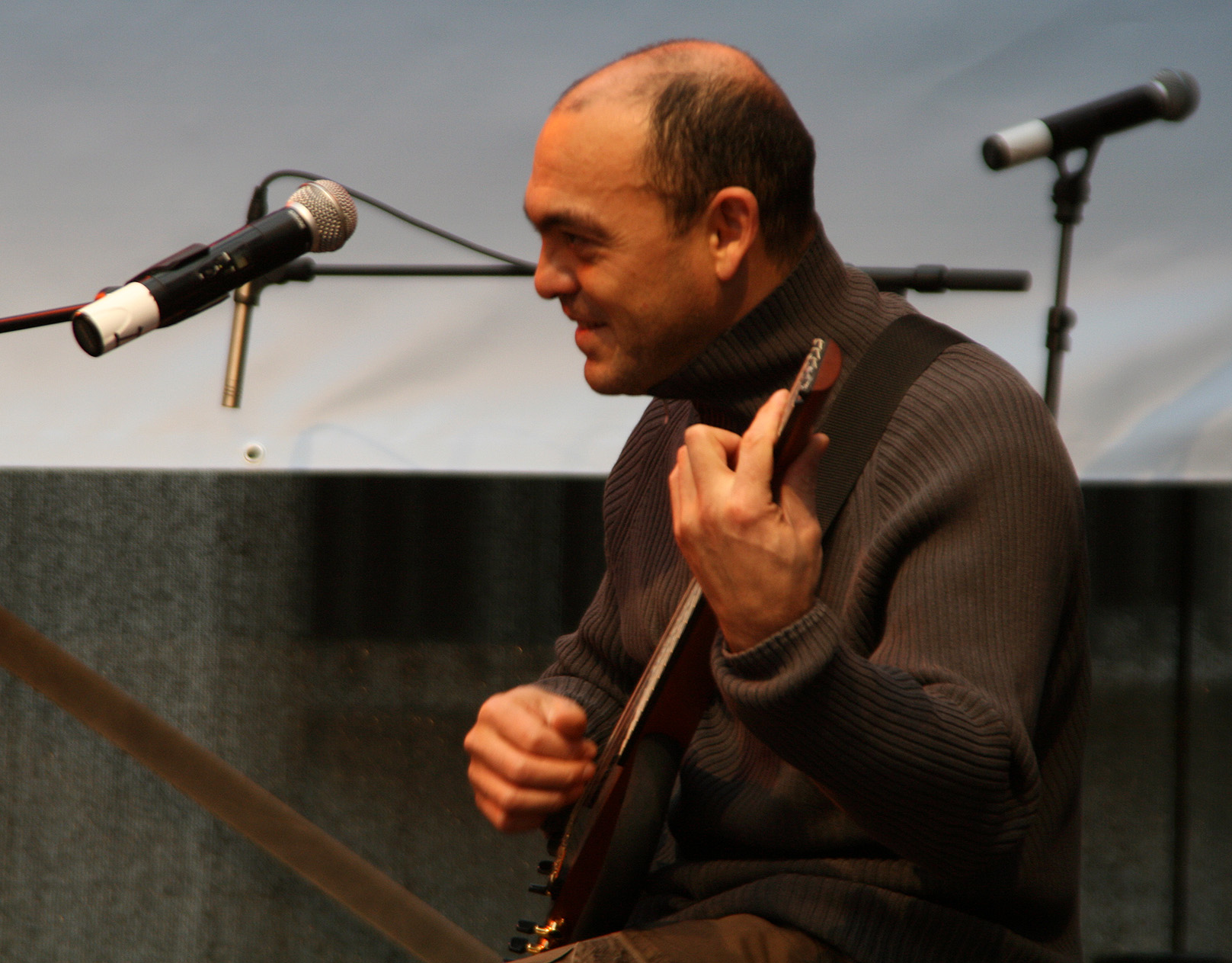 Alegre Corrêa (Alegre Corrêa), concert with Sandra Pires (Sandra Pires (Sängerin)) at the Minoritenplatz in Vienna